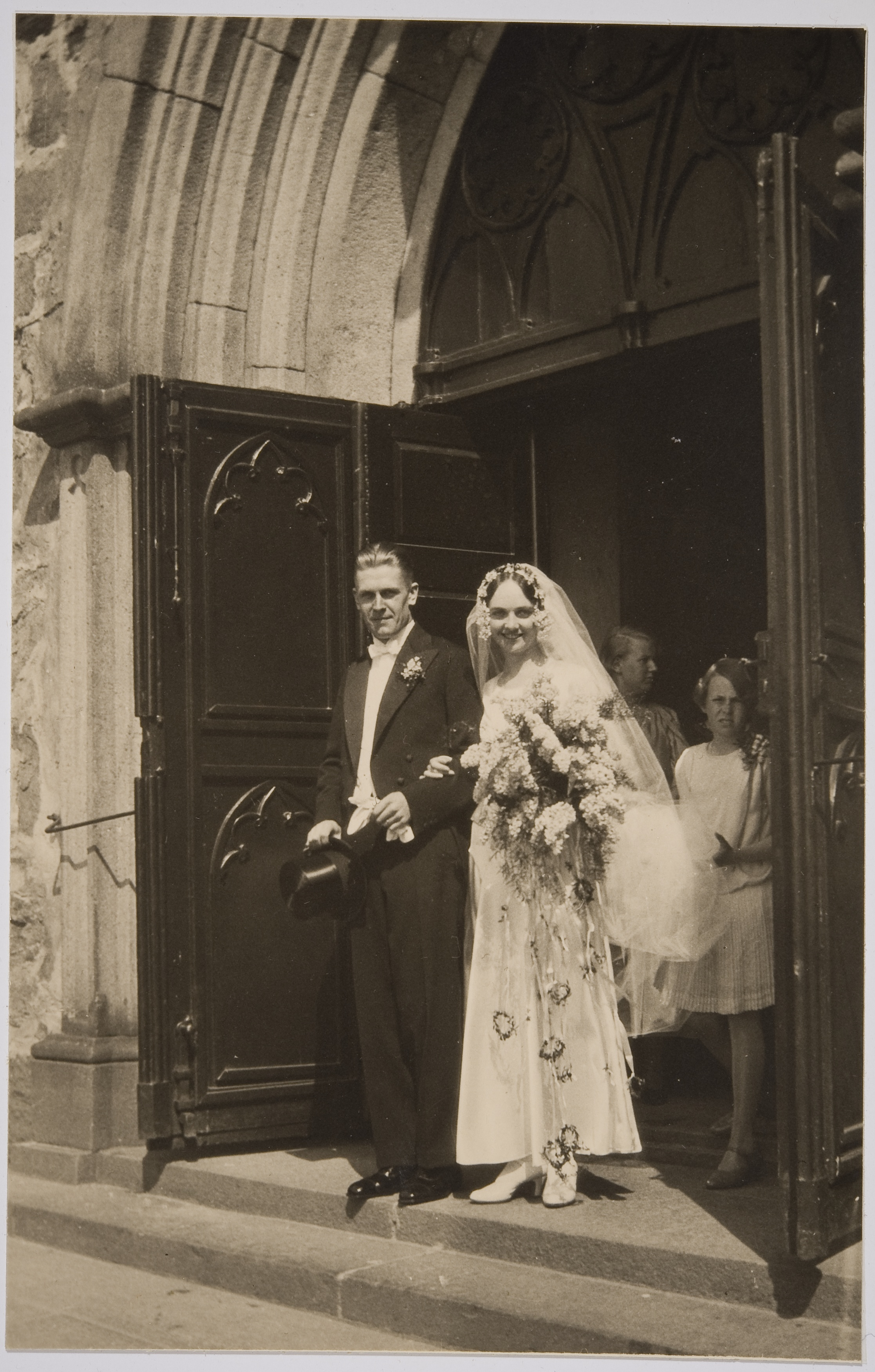 Wedding photograph of Alice Renvall née Lindholm (1905–1945) and Pentti Renvall (1907–1974).